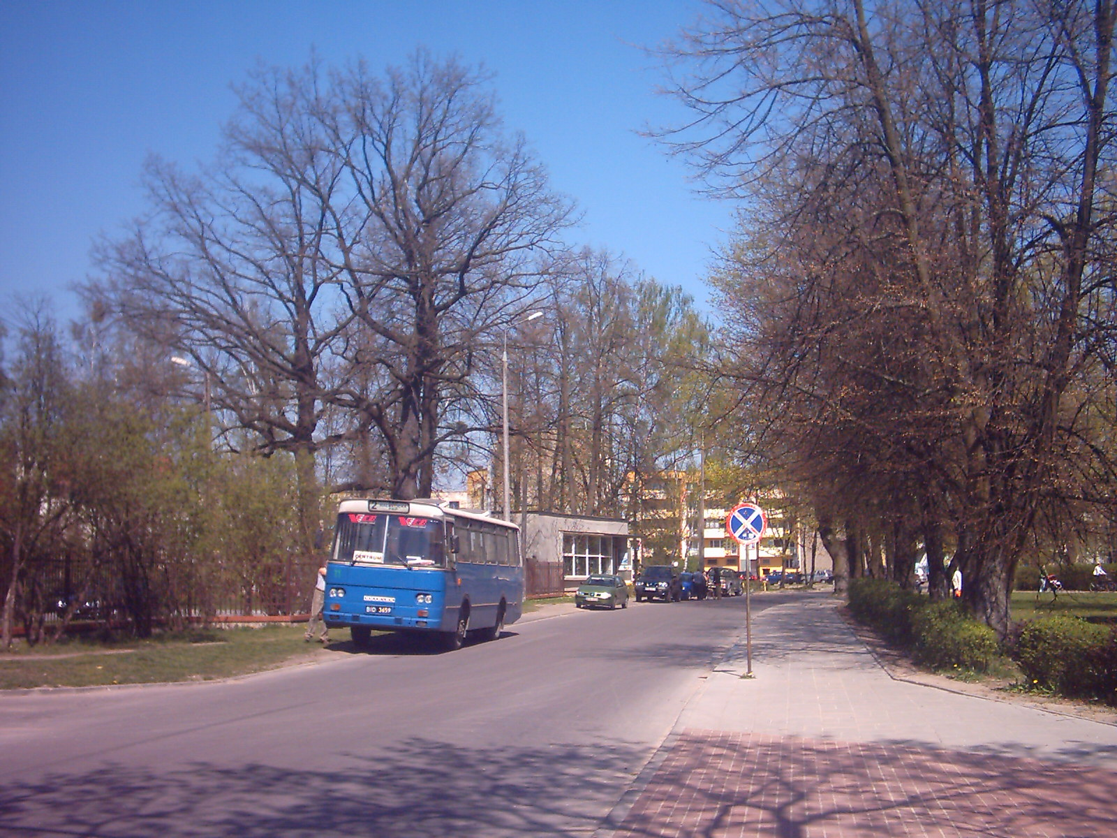 Autosan H9-35 city bus (#11) in Hajnówka, Poland. Built 1990, ZKM Hajnówka operator.